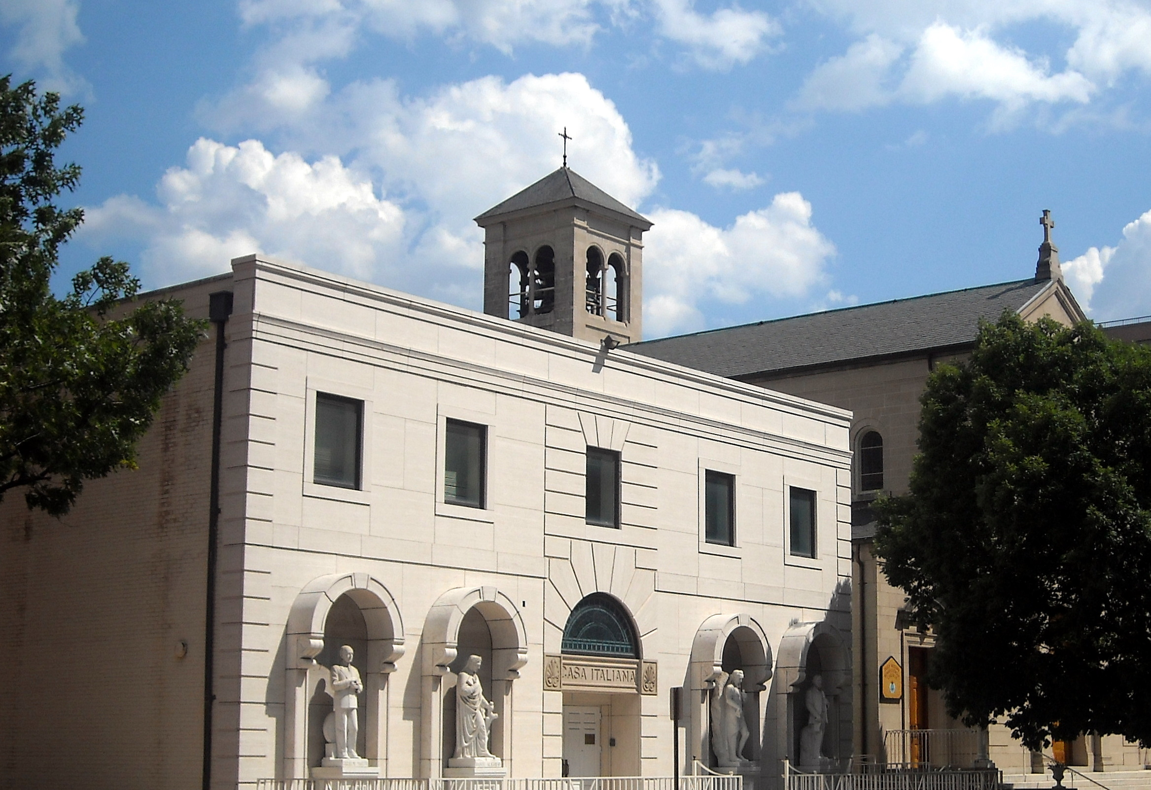 Chiesa Italiana Holy Rosary Church at 595 3rd Street, NW in Washington, D.C.